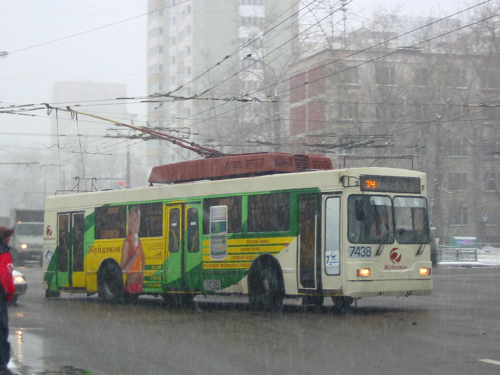 Moscow, trolleybus TrolZa-527500 #7438 with changed head windows.